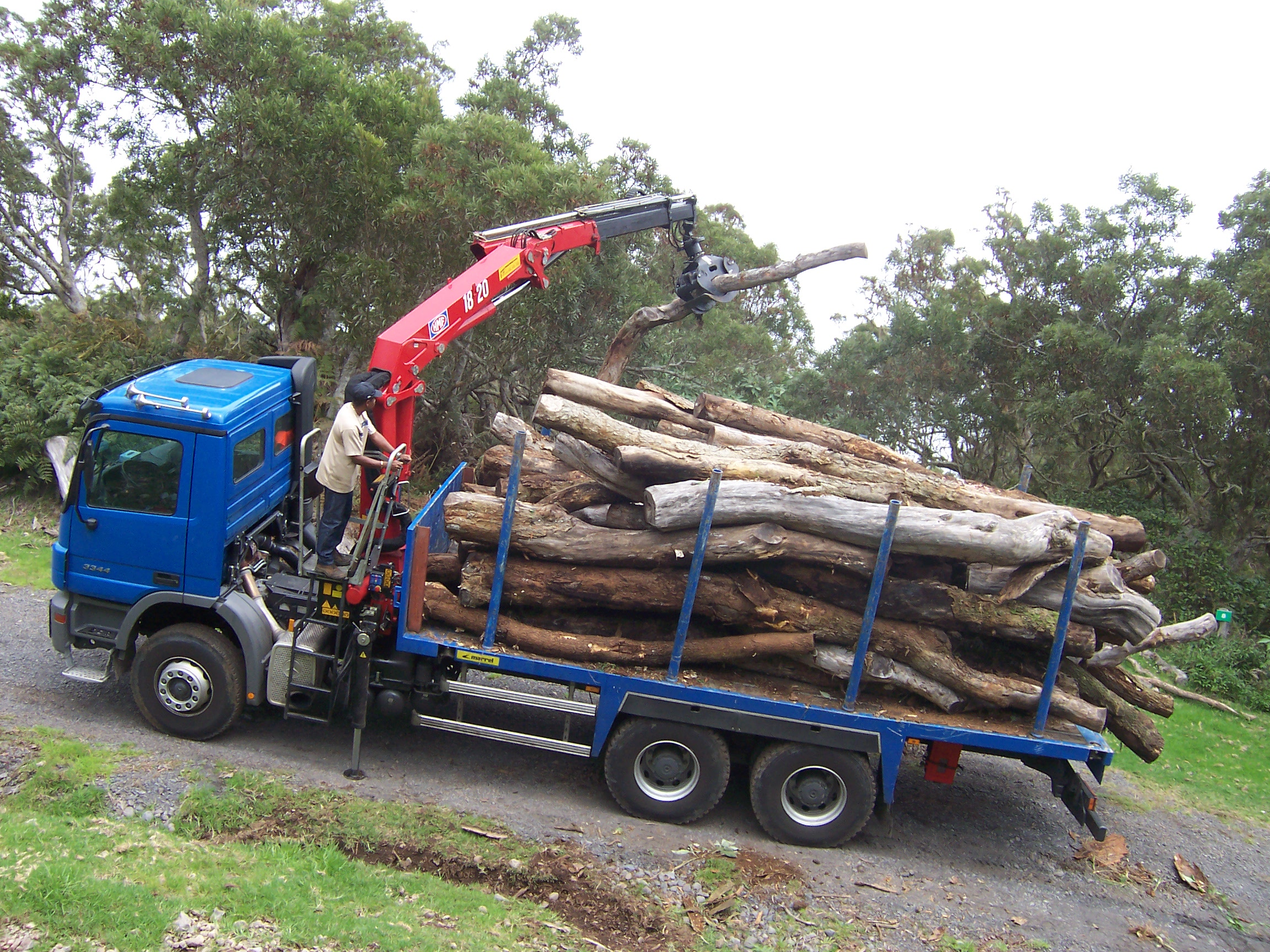 Loading logs of tamarin (Acacia heterophylla) Photo: B.Navez - 2 MAR 2006 - Réunion island